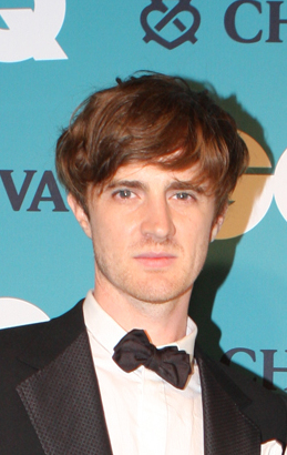 GQ Men Of The Year Awards 2012 - Arrivals